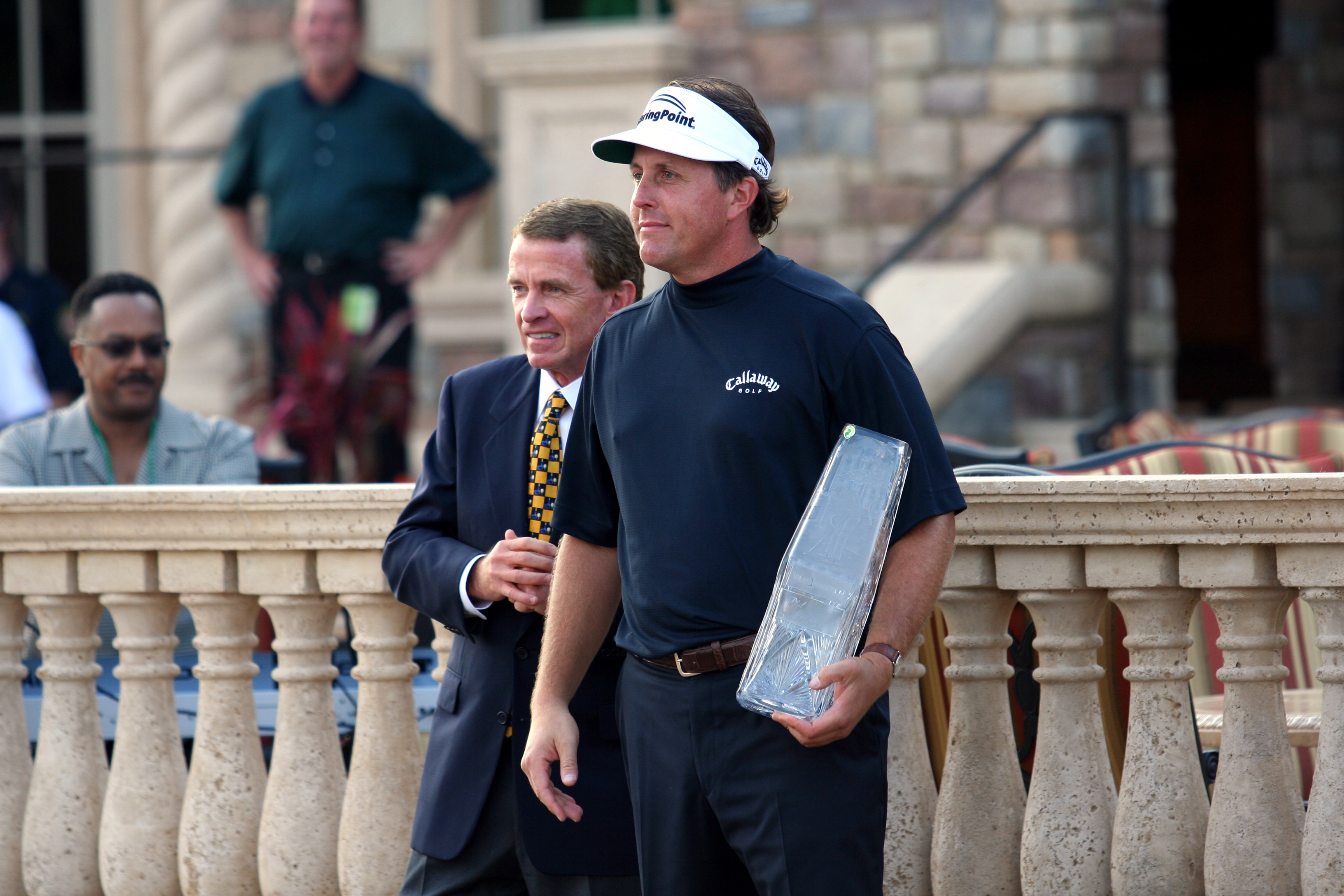 PGA Tour commissioner Tim Finchem and Phil Mickelson at the awards ceremony for The Players Championship in 2007, which Mickelson had just won.PGA TOUR Commissioner Tim Finchem & Phil Mickelson